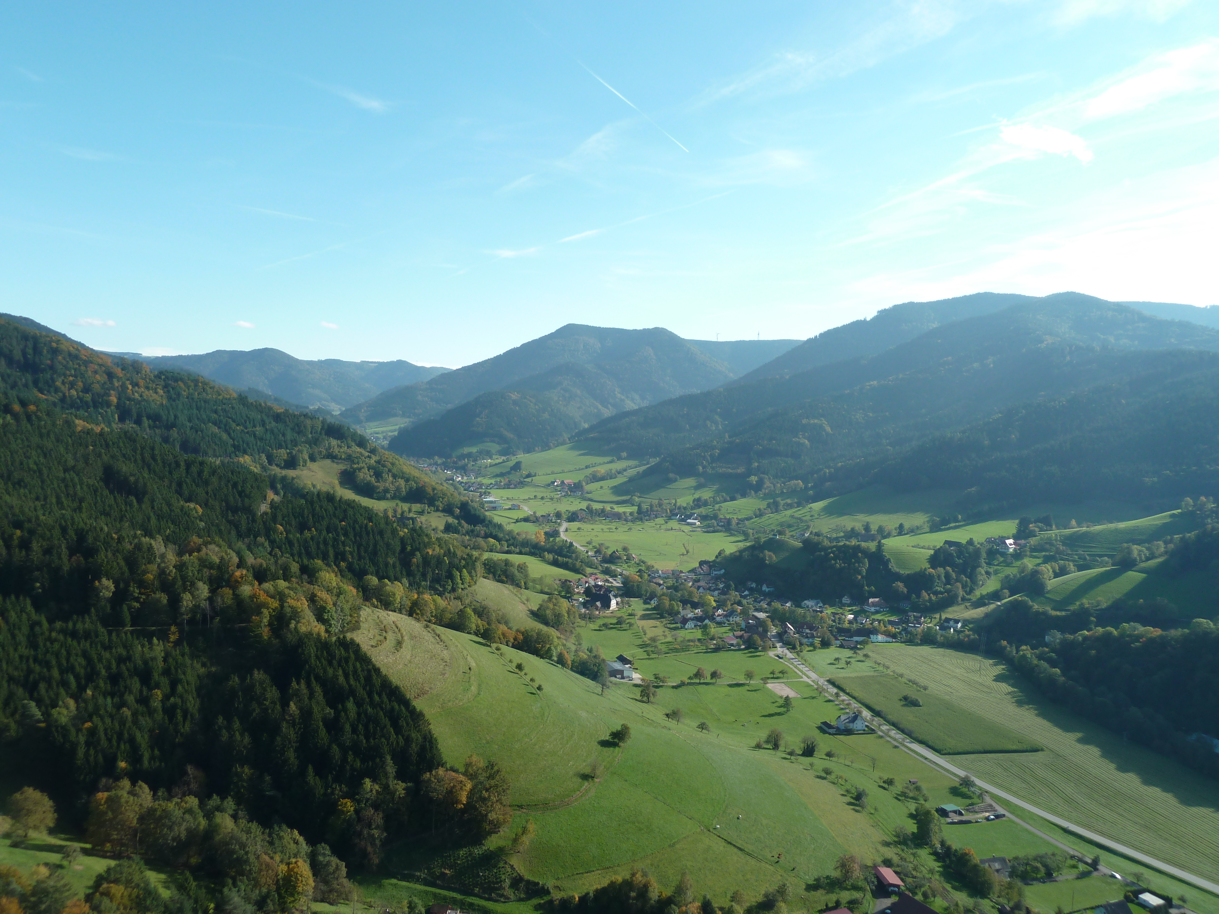 Simonswäldertal (Valley)